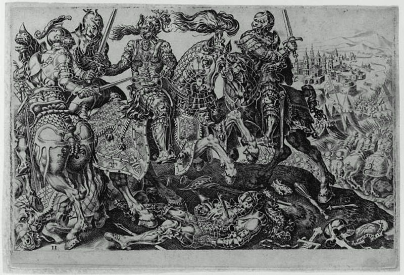 Conquest of Tunis (Victory of Charles V), 1555–1556. Platemark: 16 x 23.4 cm (6 5/16 x 9 3/16 in.), Sheet: 16.8 x 24.5 cm (6 5/8 x 9 5/8 in.), Engraving. Museum of Fine Arts, Boston, USA.